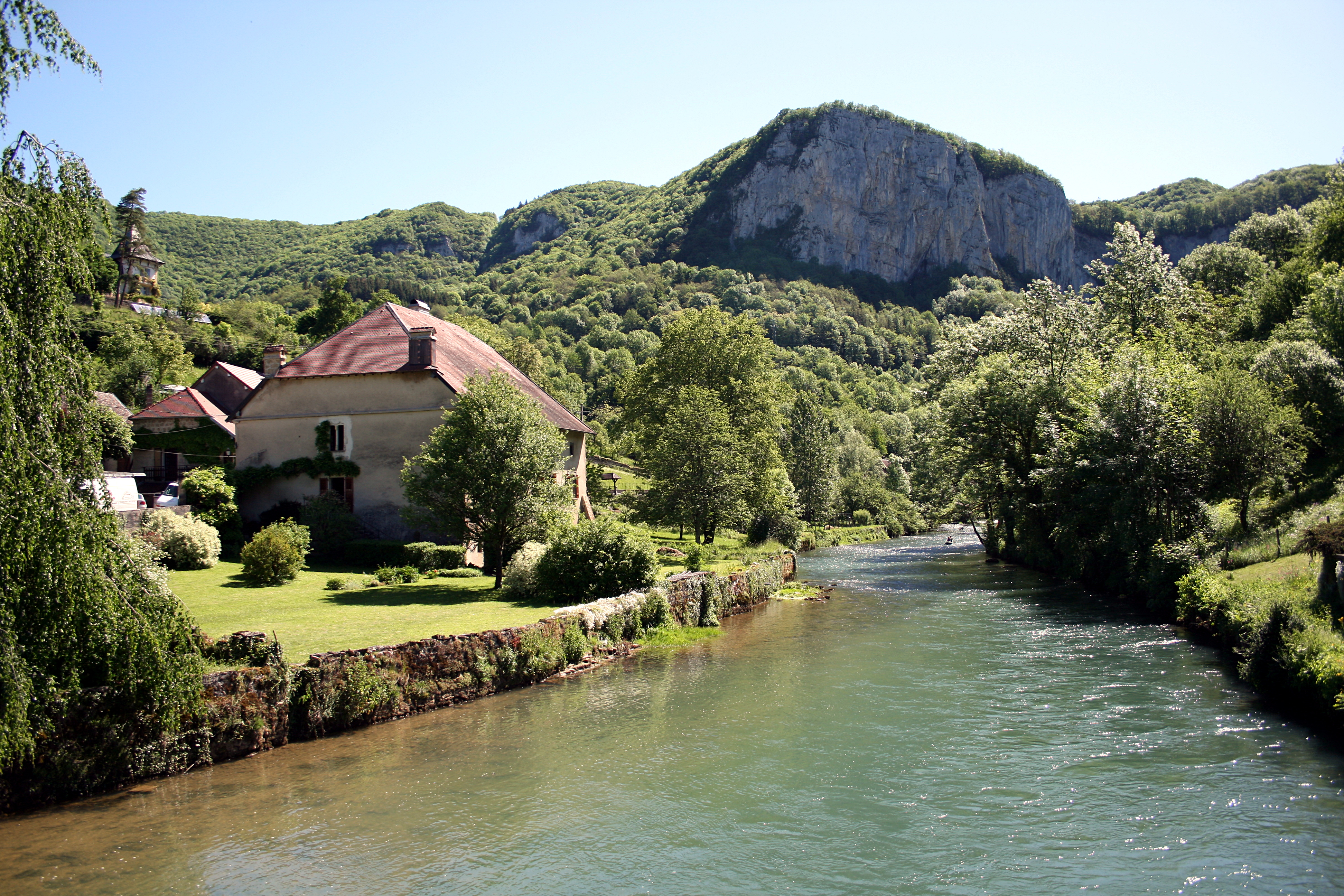 Mouthier-Haute-Pierre (Doubs - France), the Loue (river) and the neighborhood of the Rue du Pont.